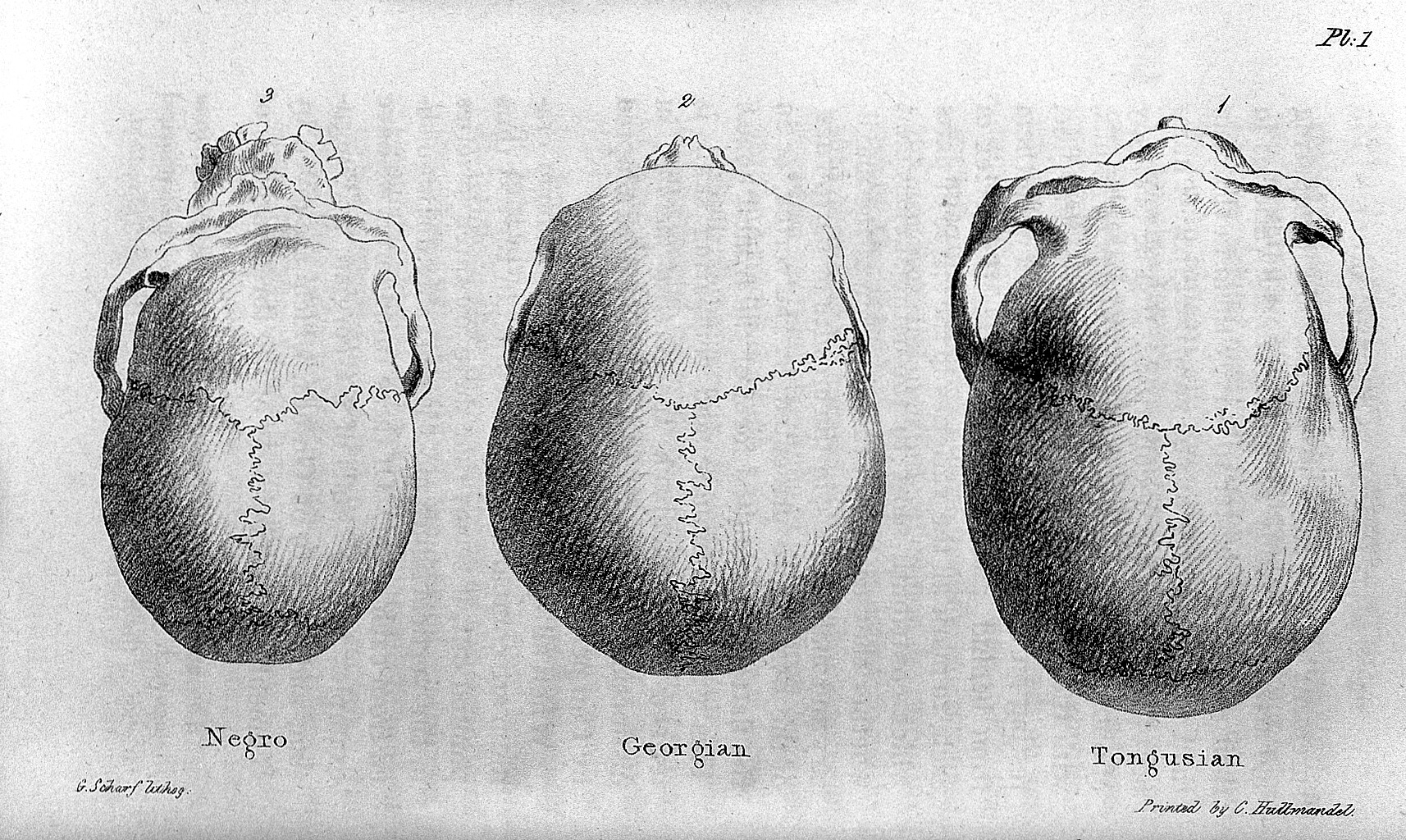 Skulls, negro, georgian and tongusian Rare Books Keywords: Ethnography; Ethnology